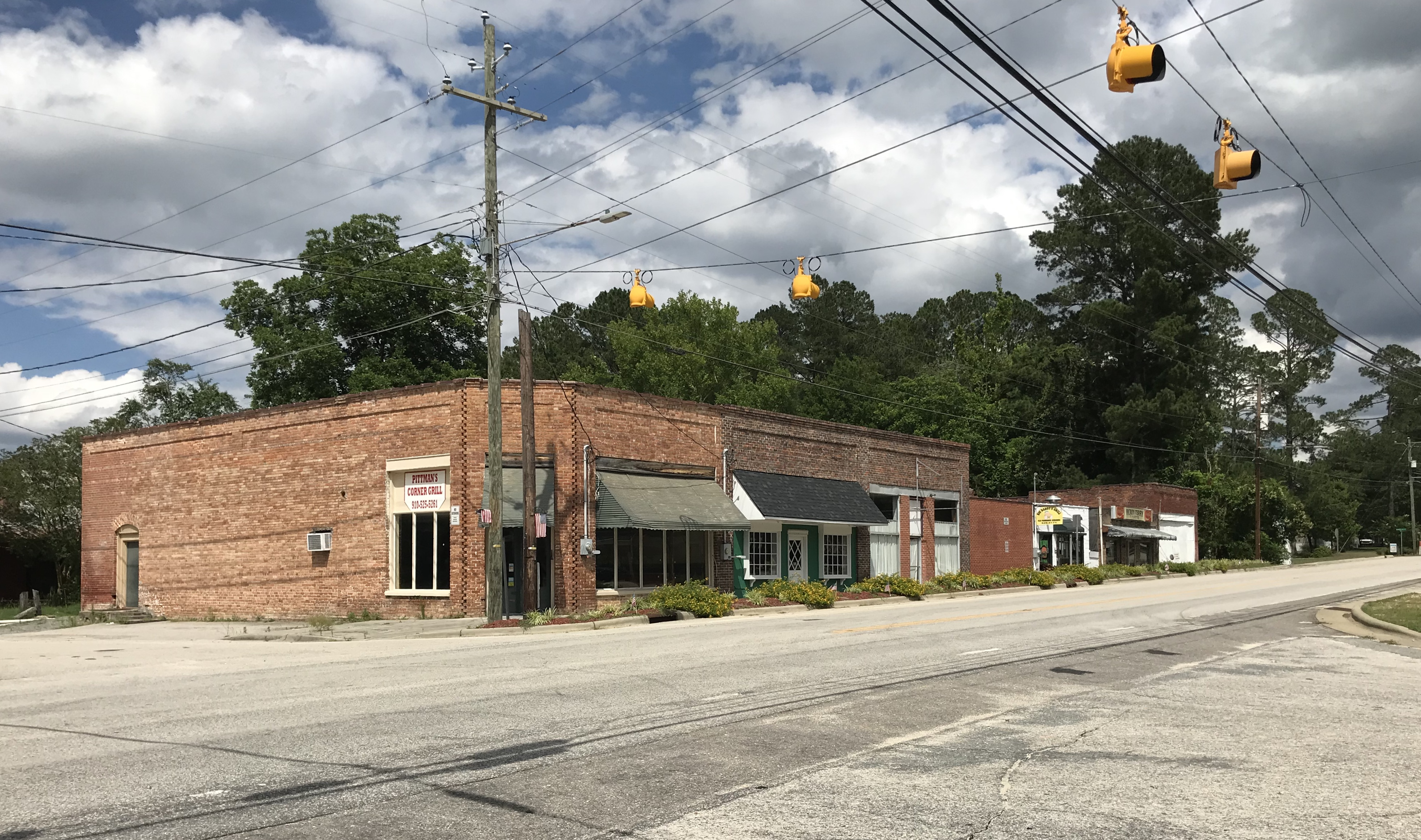 Old commercial buildings in downtown Autryville